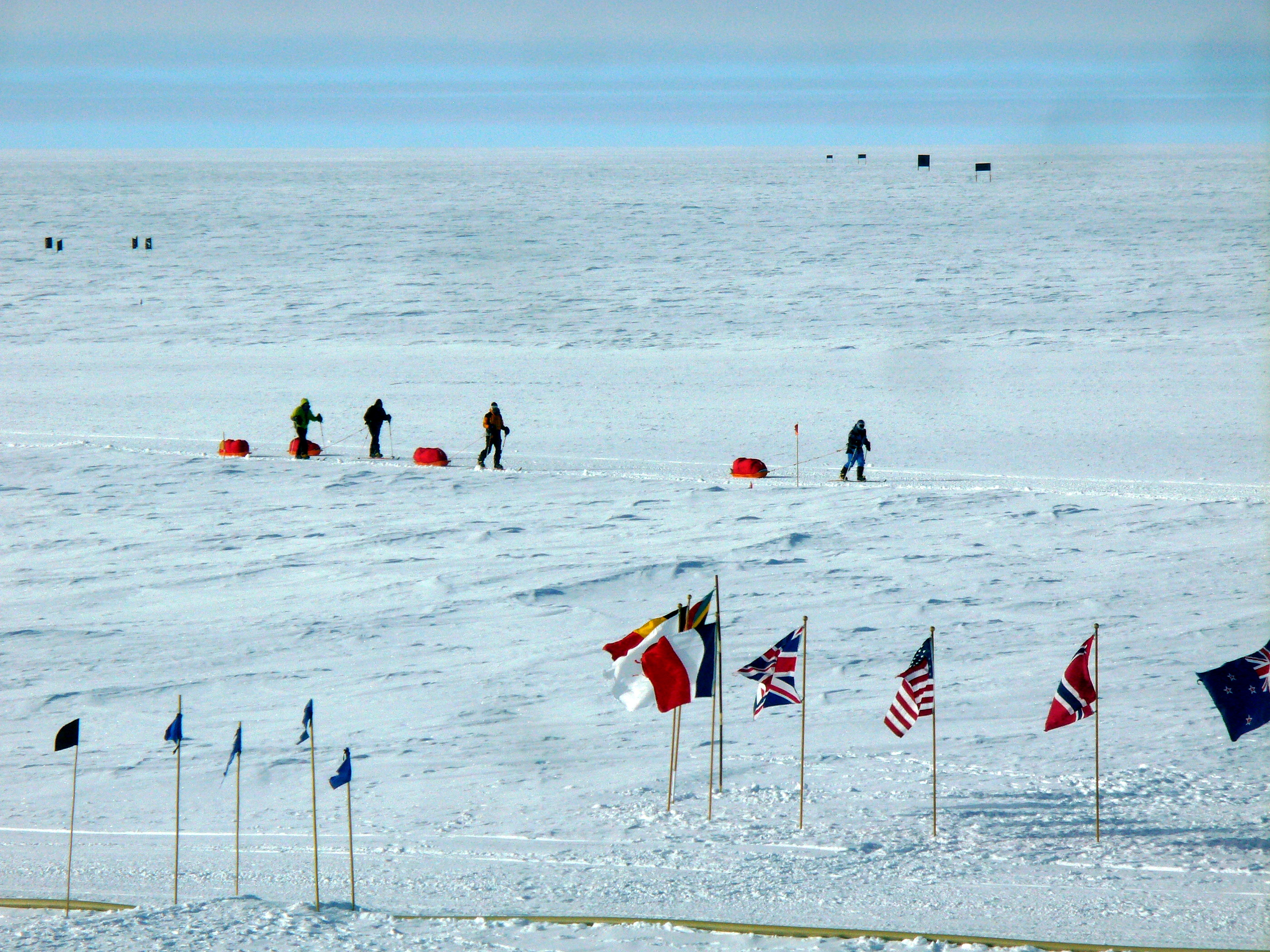 A party of skiers arrives after traversing to the South Pole. Amundsen-Scott South Pole Station, Dec. 13, 2009. Flags of Antarctic Treaty signatory nations are at the ceremonial South Pole. Hose in foreground is the fuel line through which JP-8 is transferred from LC-130 aircraft to the station fuel tanks.